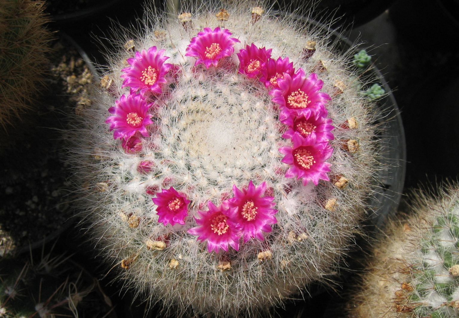 White Mammillaria, perhaps hahniana (not Mam. candida like mentioned in the file name!) with blossoms Foto: Rolf Thum, taken in April 2006, Hockenheim Germany